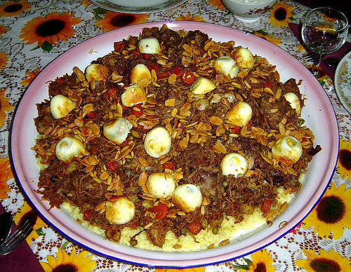 Iraqi Biryani (as served in Amman, Jordan)